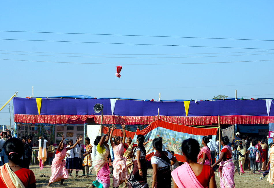 Dhopkhel_The most popular indigenous game in the state of Assam one played by men and the other by women. অসমীয়া: ঢোপ খেল